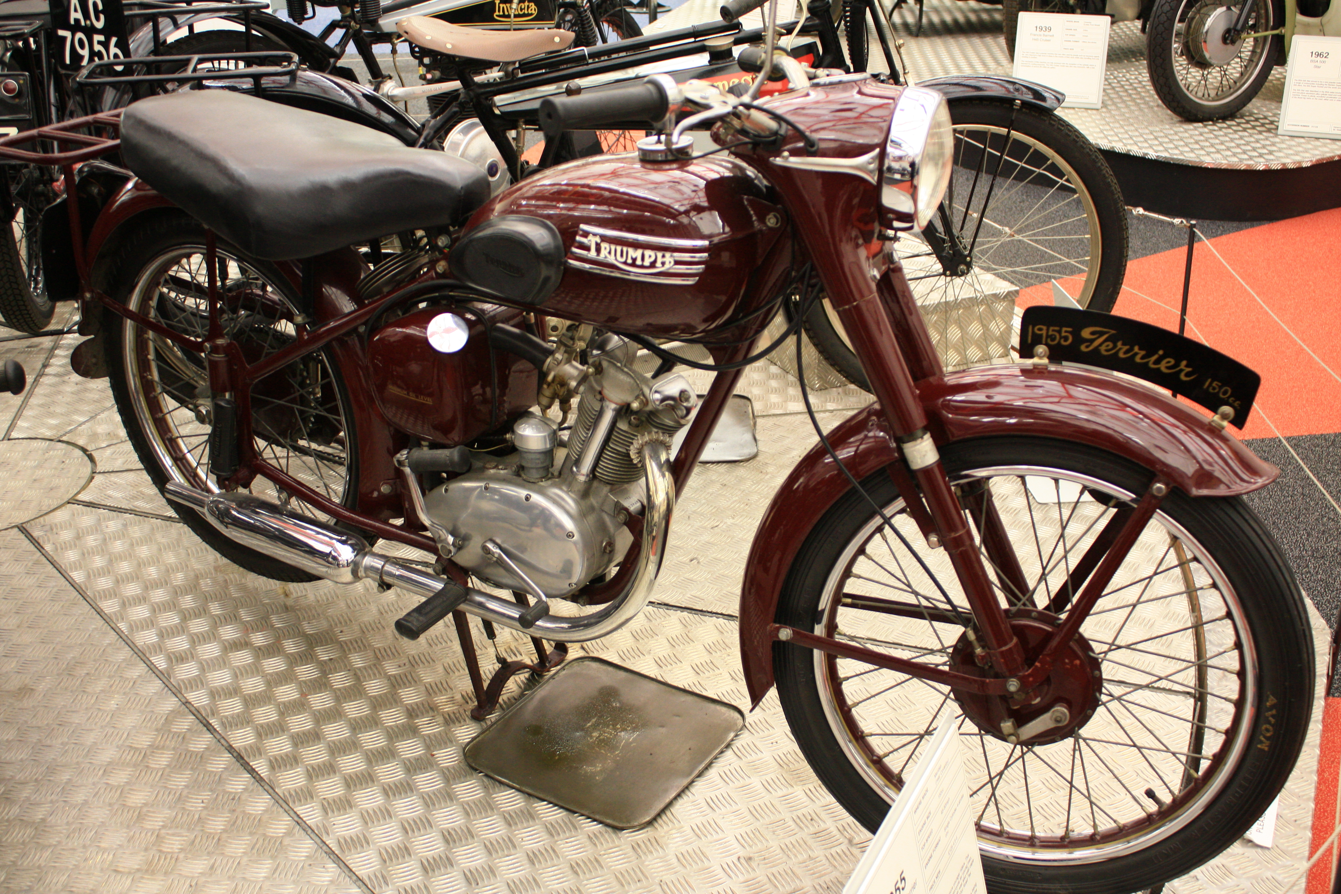 Made in: Meriden (near Coventry) Engine size: 150cc Engine format: Single cylinder 4-stroke ohv Price new: �125 "Triumph introduced the T15 Terrier in 1953 in an attempt to attract more younger rider. This lightweight motorcycle, fitted with a 150cc engine, was an ideal first motorcycle for men, who would later want to ride larger and more powerful machines. The Terrier was also well capable of carrying a passenger but more importantly, fitted nicely in the below 150cc Road Tax bracket. Triumph were also gaining more of a fashionable reputation with many of their machines being featured on screen. Perhaps there is no surprise that he Terrier was placed on the market the same year that Marlon Brando starred in The Wild One, famously riding a Triumph motorcycle. Another good move by Triumph was the styling of the terrier - made to look like a small Speed-Twin it was finished in the same trademark colour. The Terrier was the first model under 200cc to be built be Triumph since their 150cc XO series in 1934. It was built until 1956, when it was superseded by the highly acclaimed 200cc Tiger Club. Coventry Transport Museum, UK. 2009